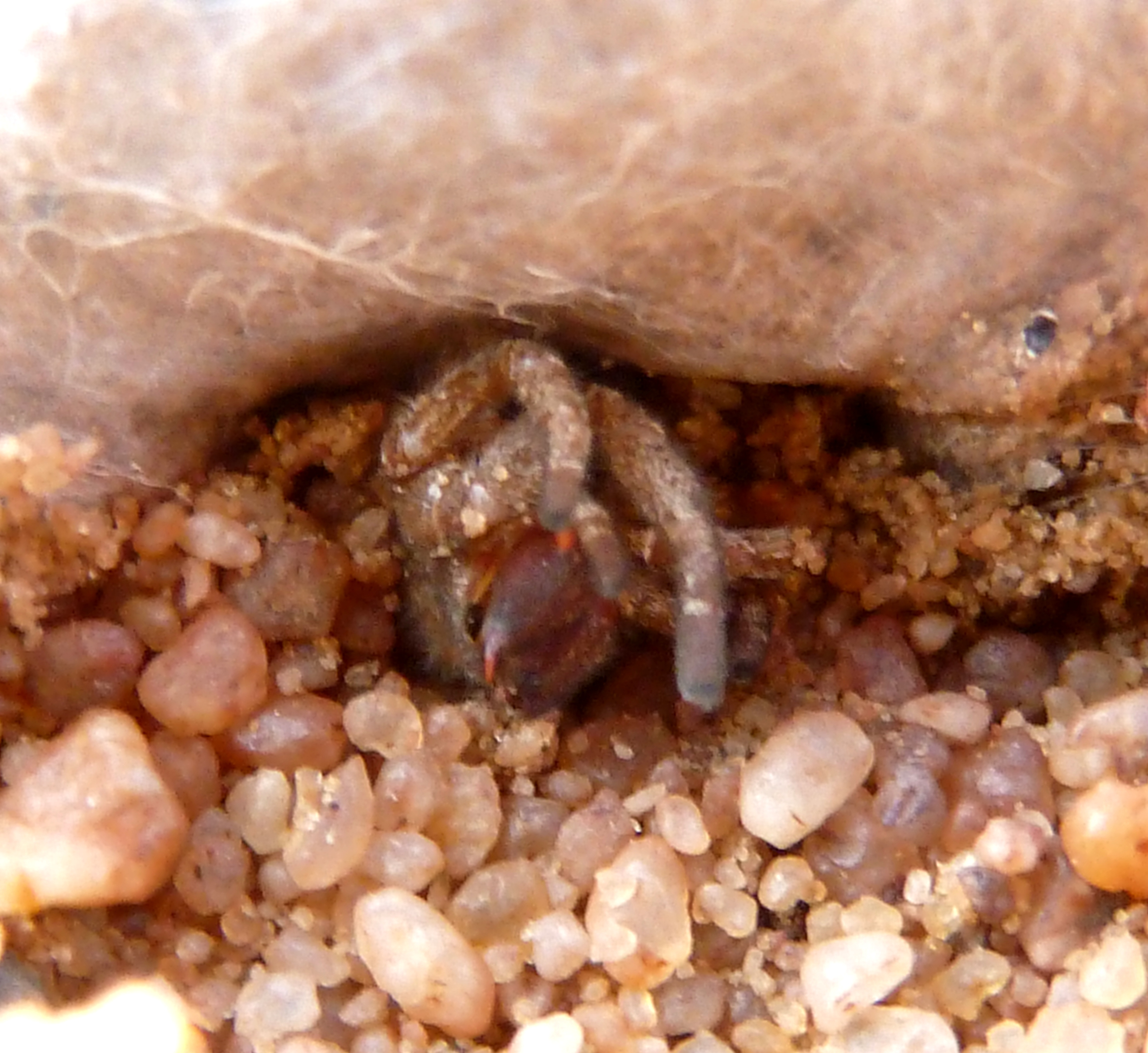 The shed skin of a Buck-spoor spider under its silky canopy, on a sandy track near Zinyathi lodge, Steenbokpan, Limpopo